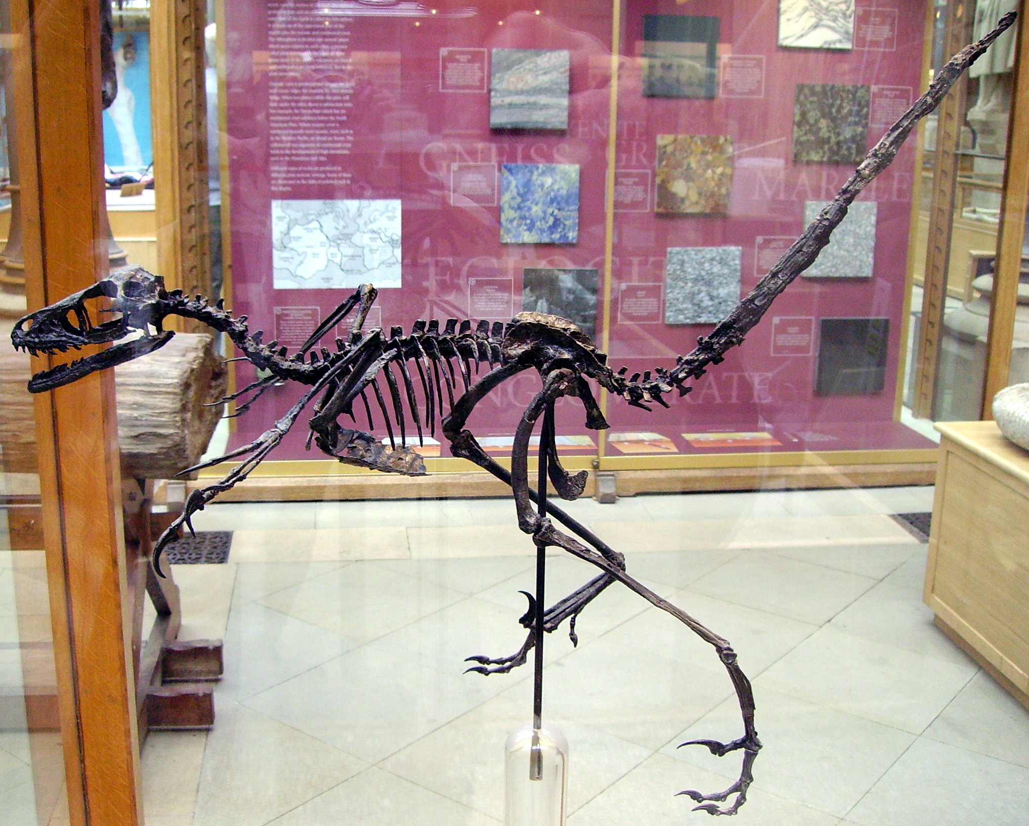 Bambiraptor skeleton in the Oxford University Museum of Natural History.